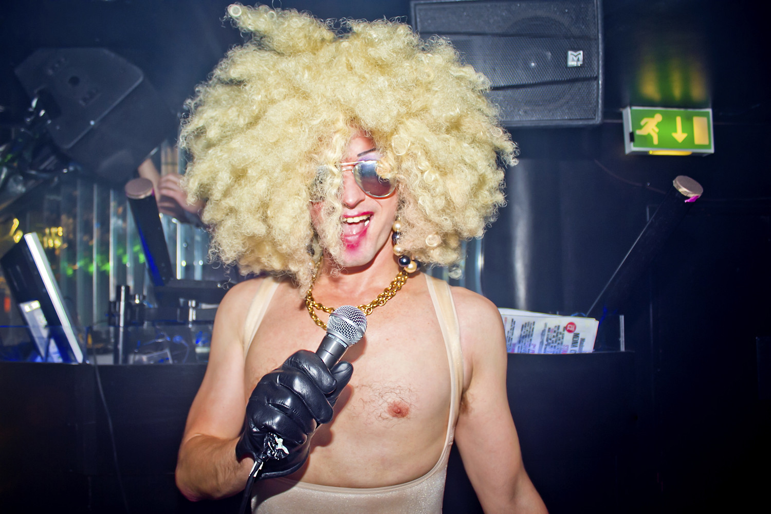 Jonny Woo at Madonna Celebration Club in London